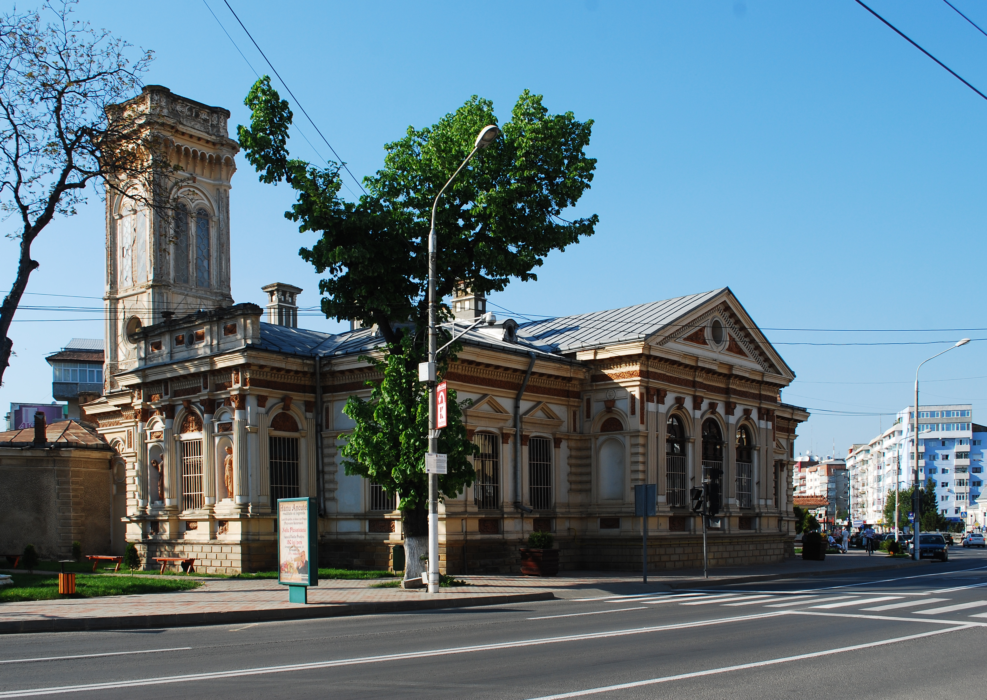 Ioachim house, currently the city library, in Roman, Neamț County, RomaniaRomână: Casa Ioachim, astăzi bibliotecă municipală, din Roman, județul Neamț, România